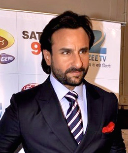 Indian actor Saif Ali Khan at the Dance India Dance reality show in 2014